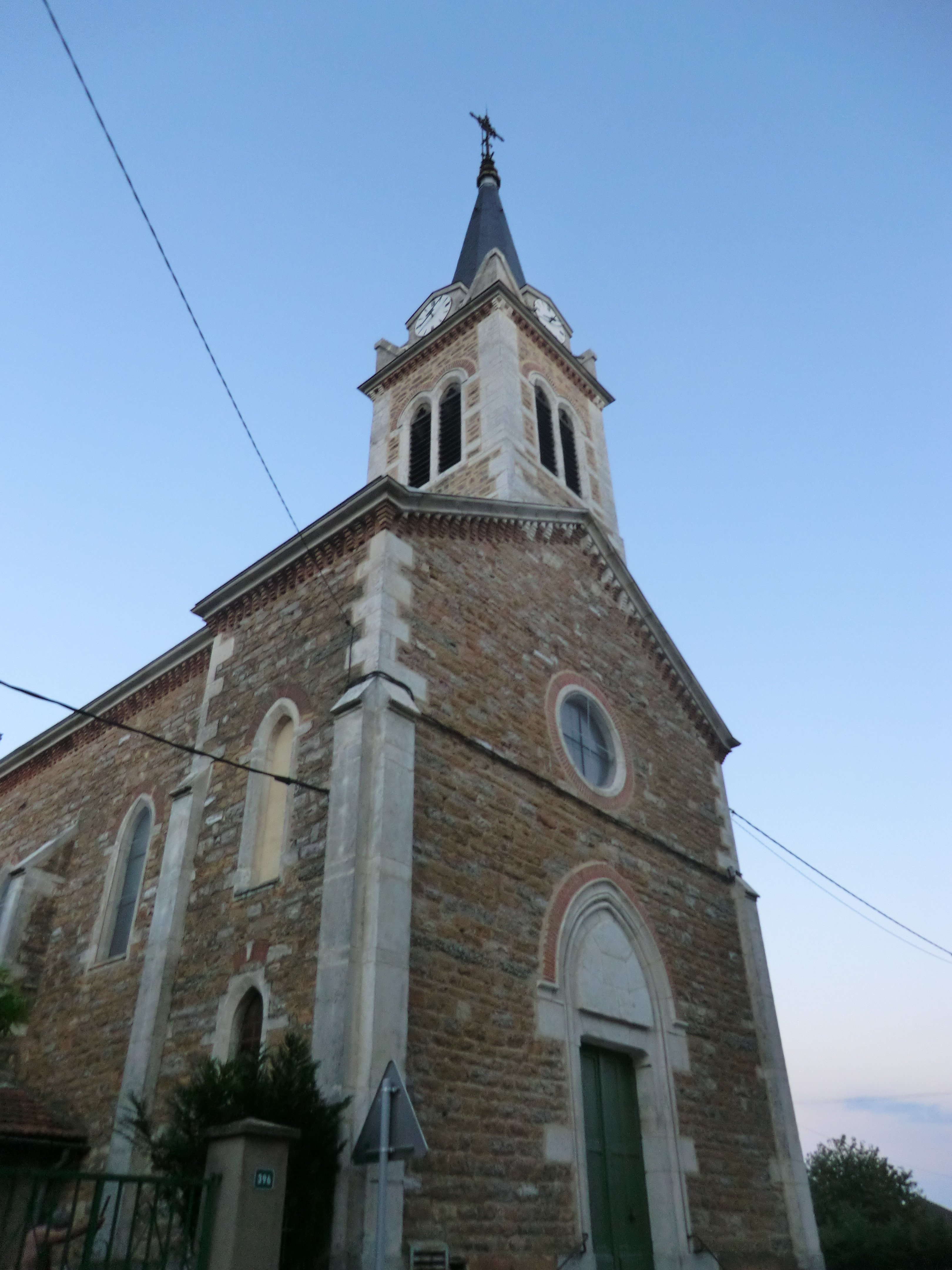 Church of Saint-André-de-Corcy.